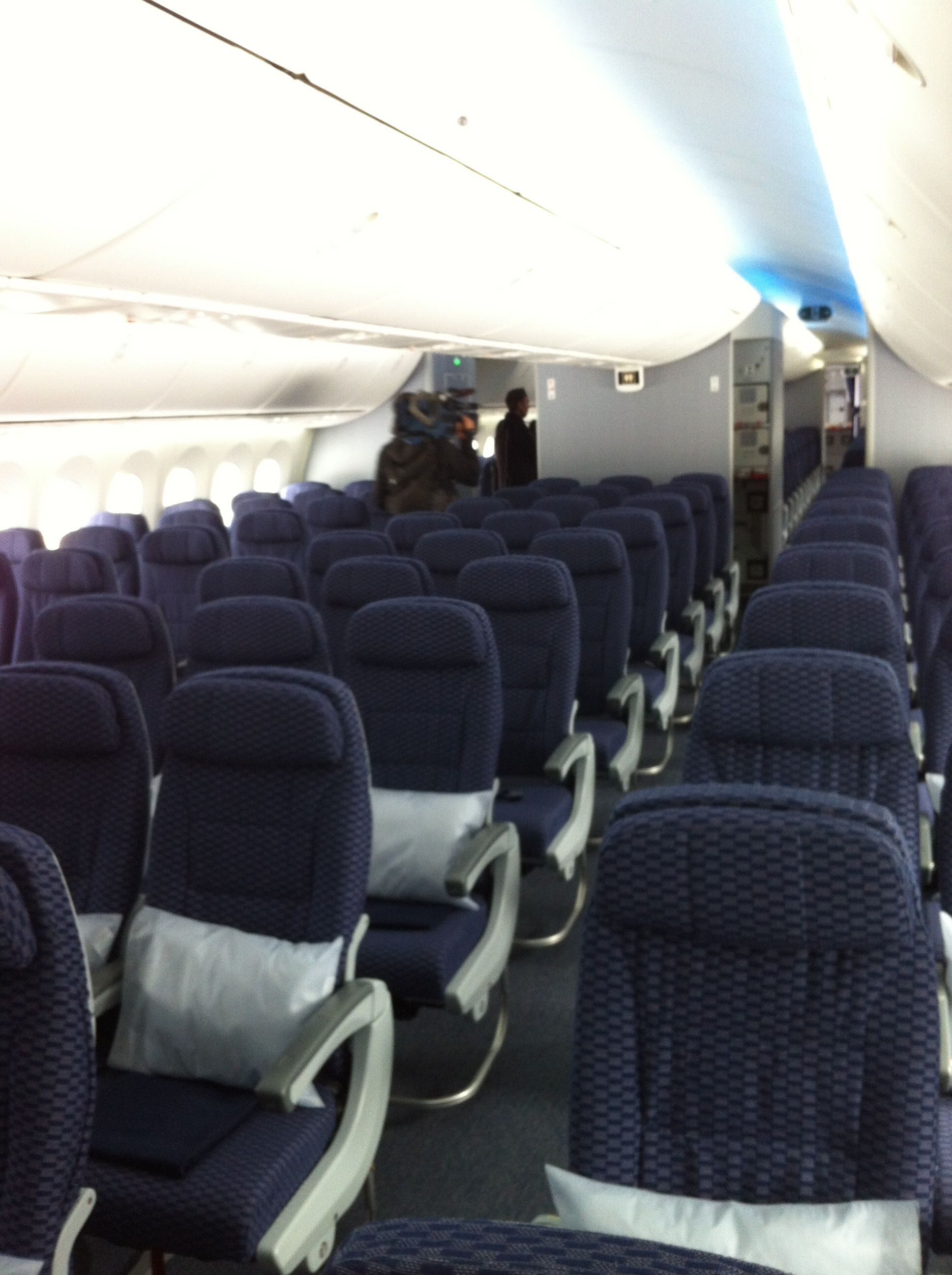 31" pitch in economy, 34" or more in economy plus (exit rows are more).